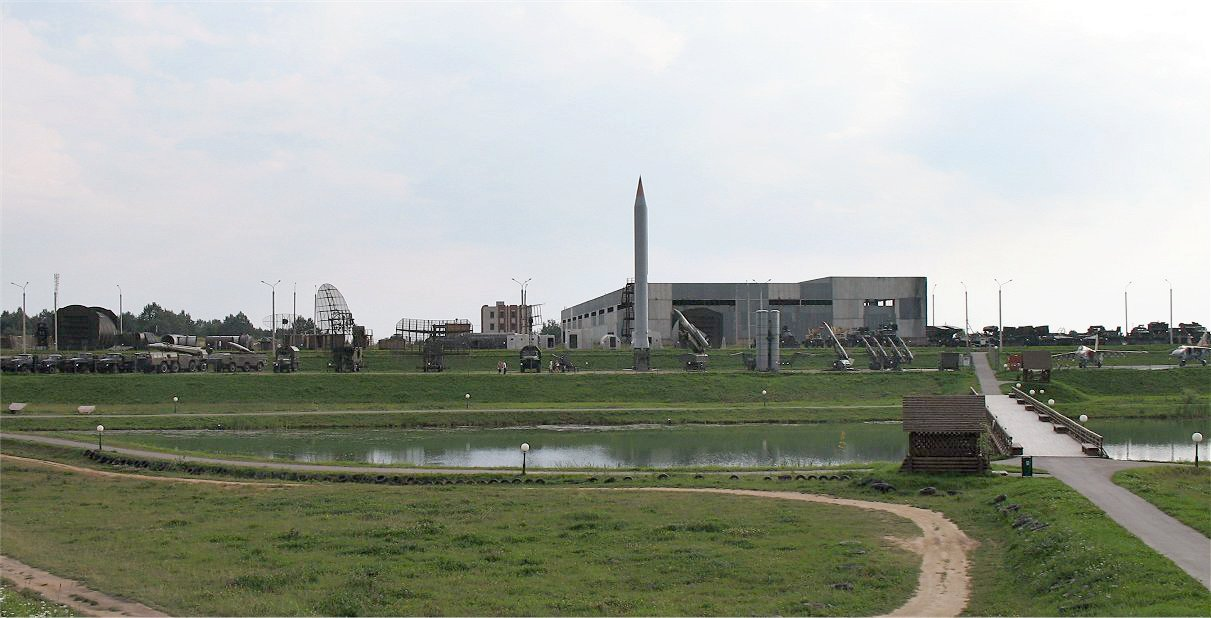 "Stalin line" exhibition and museum area outside Minsk for the Stalin line history & army equipments of Belarus.